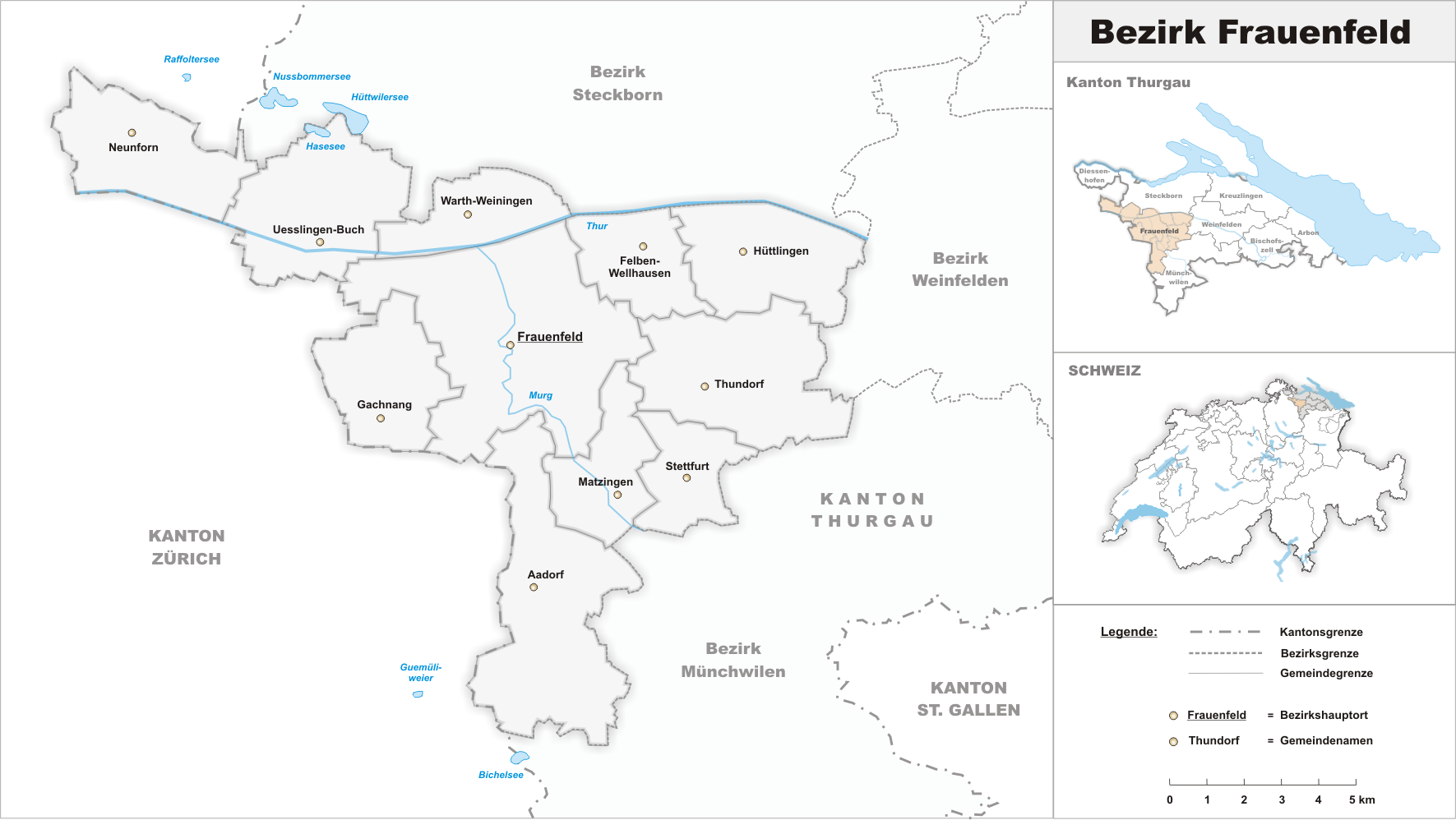 Municipalities in the district of Frauenfeld